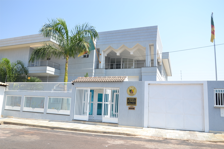 Embassy of Cameroon in Brasilia (Brazil).png